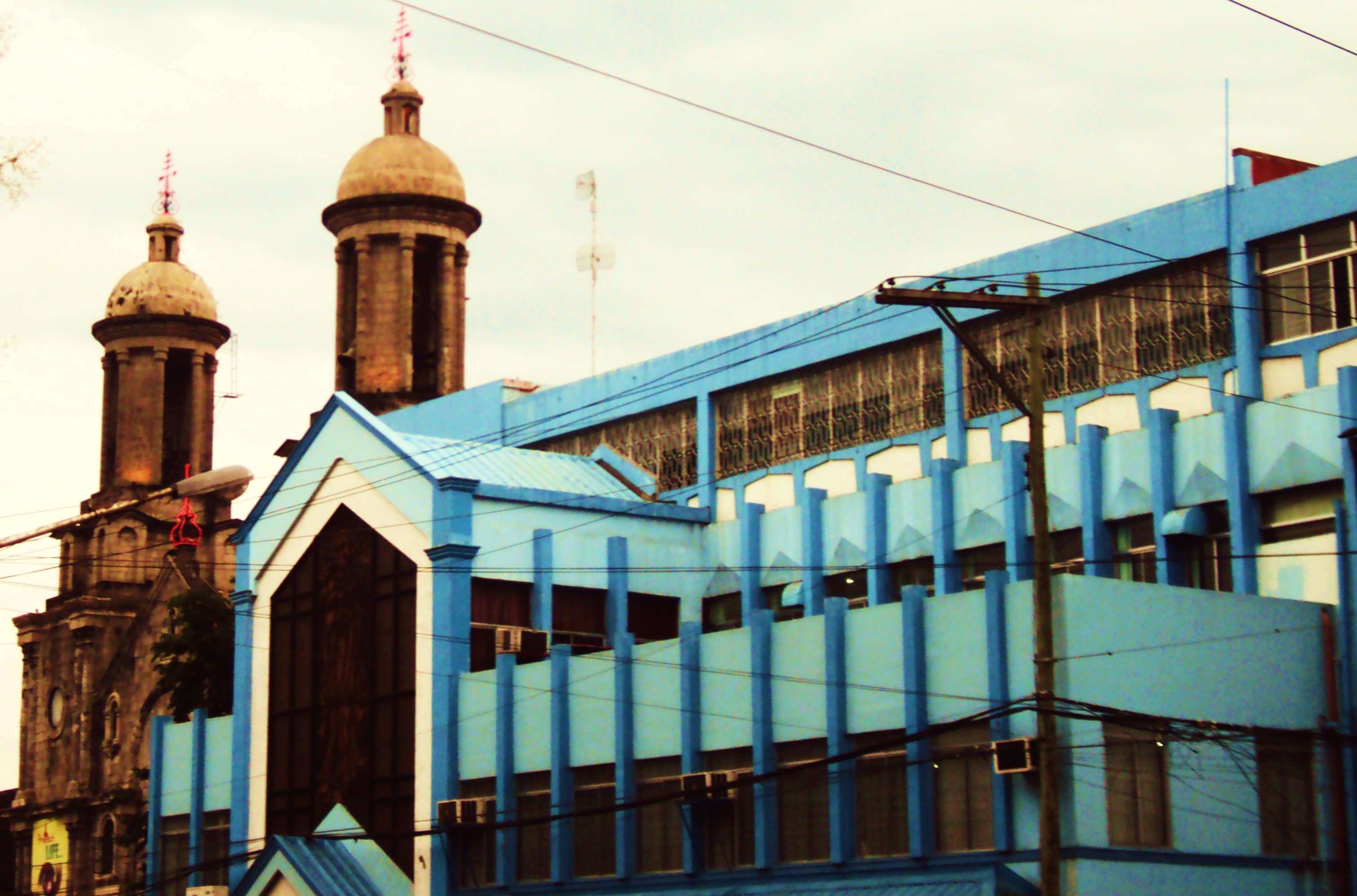 Church and Education. The San Sebastian Cathedral and the College Building of La Consolacion College Bacolod, depicts how strong the ties of education and religion is in the Philippines as private Catholic institutions make religion the core of their curriculum., Bacolod City.